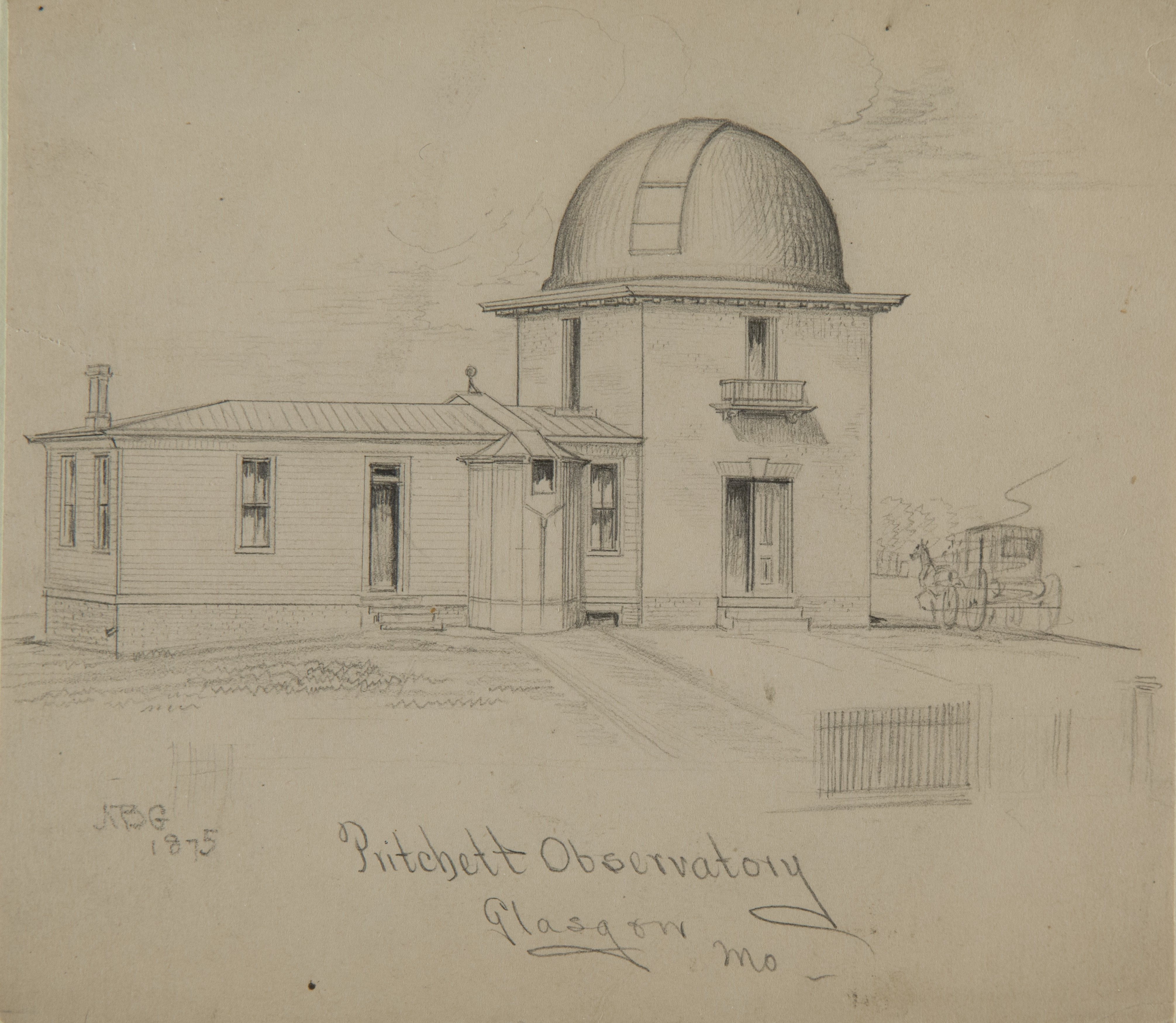 Pencil drawing "Pritchett Observatory Glasgow Mo." by A.B. Greene. Greene was a late 19th century commercial artist from St. Louis who specialized in ink and pencil drawings of architecture, landscapes, and portraits. This drawing depicts the Pritchett College Morrison Observatory in Glasgow, Missouri in 1875, the same year it opened.Title: Pencil Drawing "Pritchett Observatory Glasgow Mo." by A.B. Greene